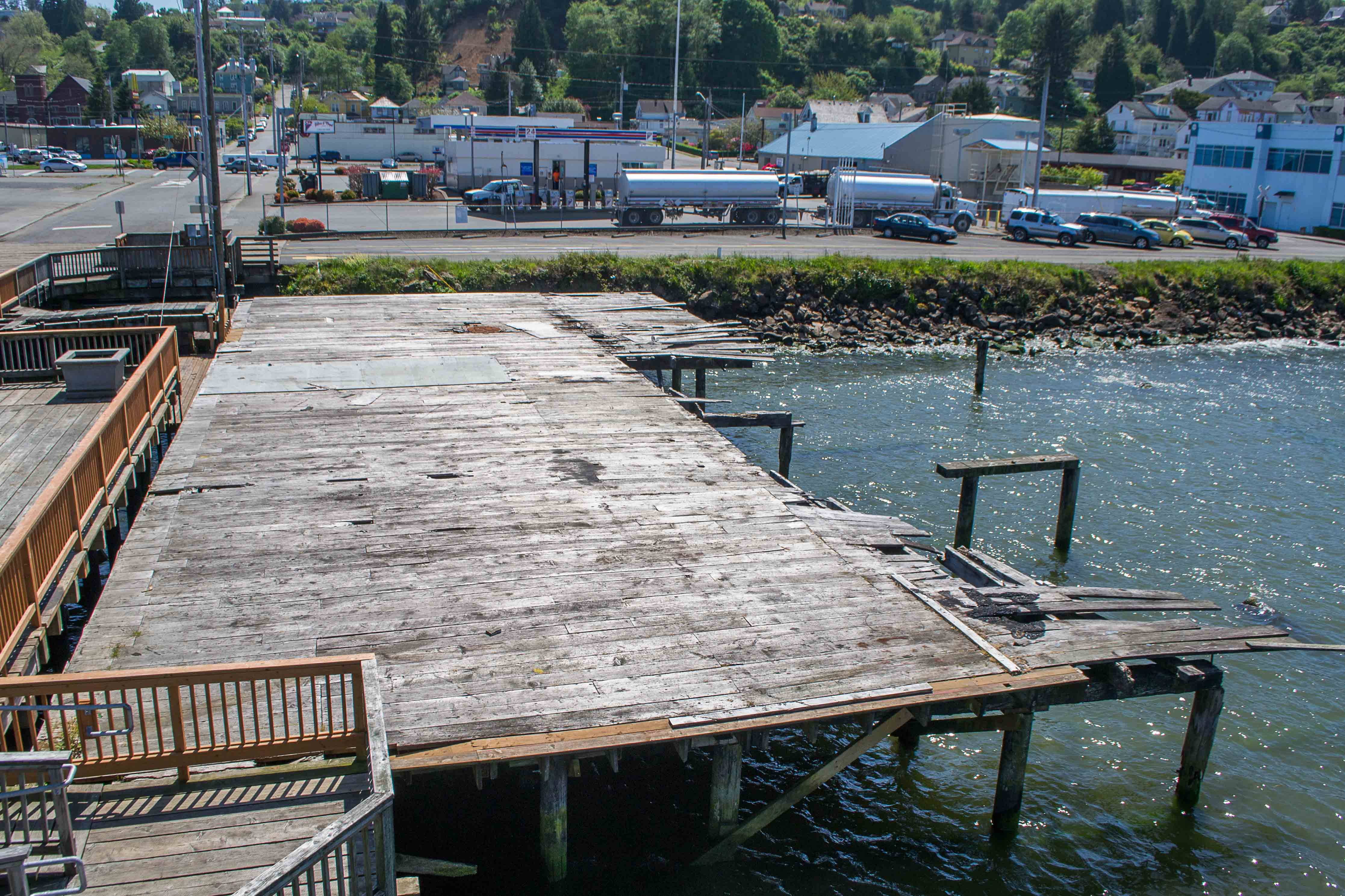 The former location of the Marshall Kinney Cannery in Astoria, Oregon